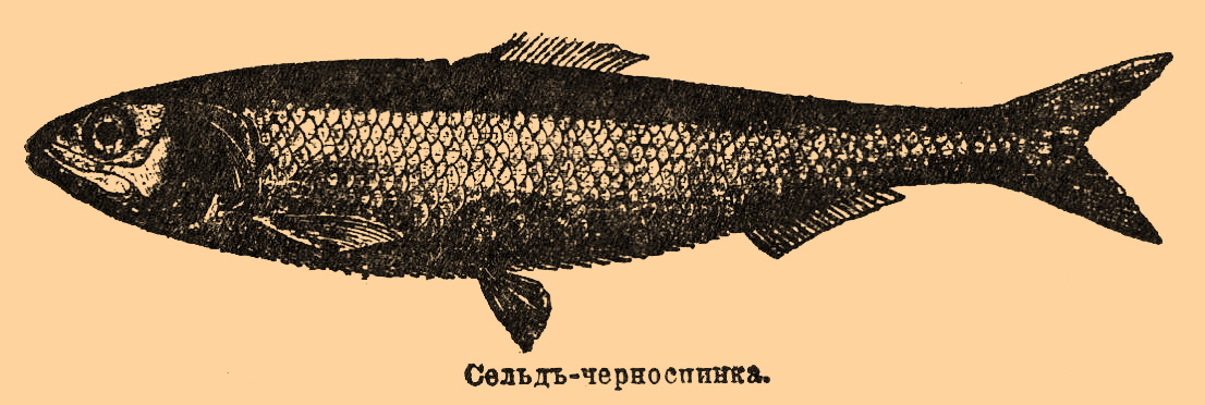 Illustration from Brockhaus and Efron Encyclopedic Dictionary(1890—1907)